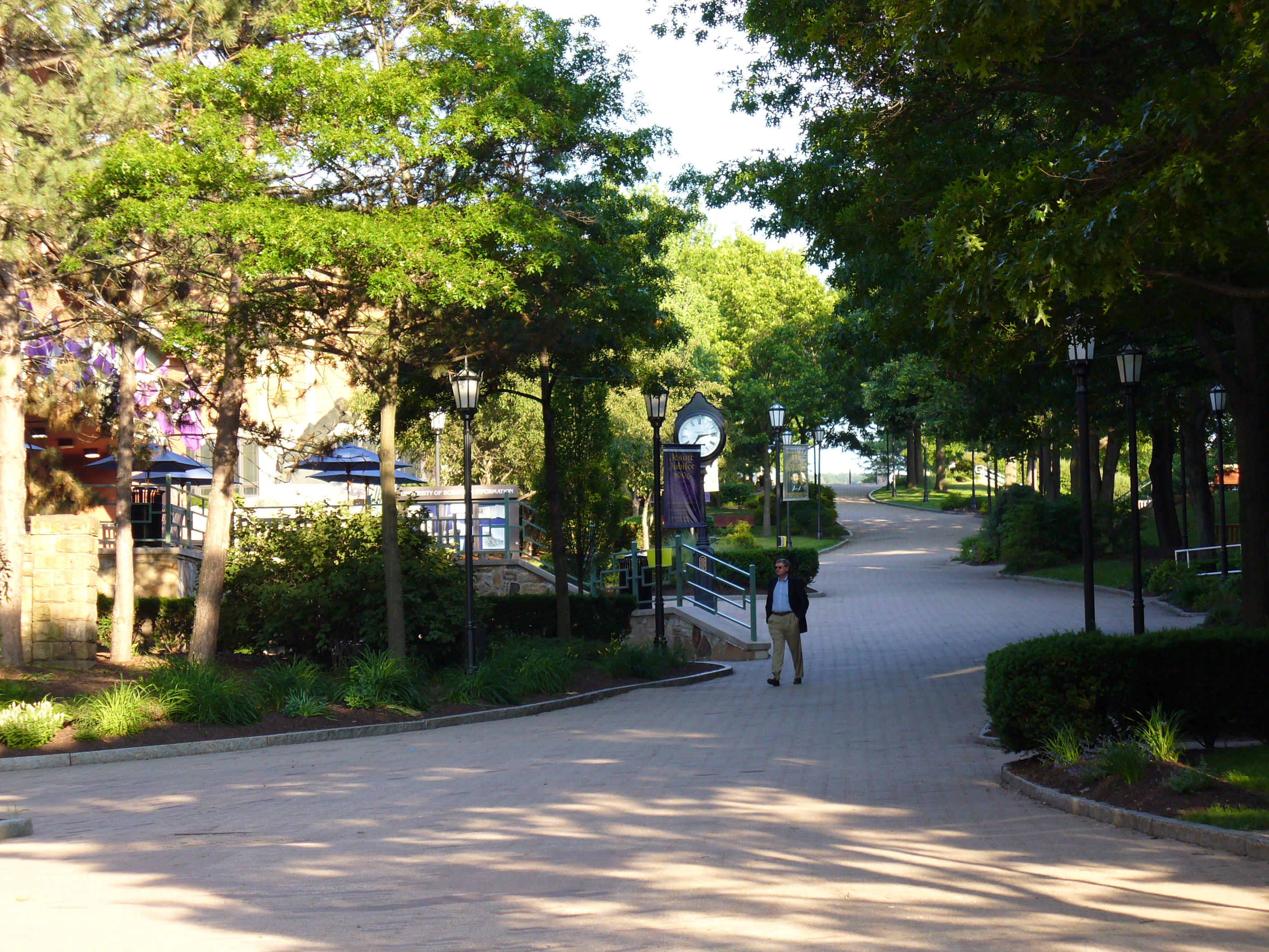 The Commons, University of Scranton, at Scranton, Pennsylvania, United States.